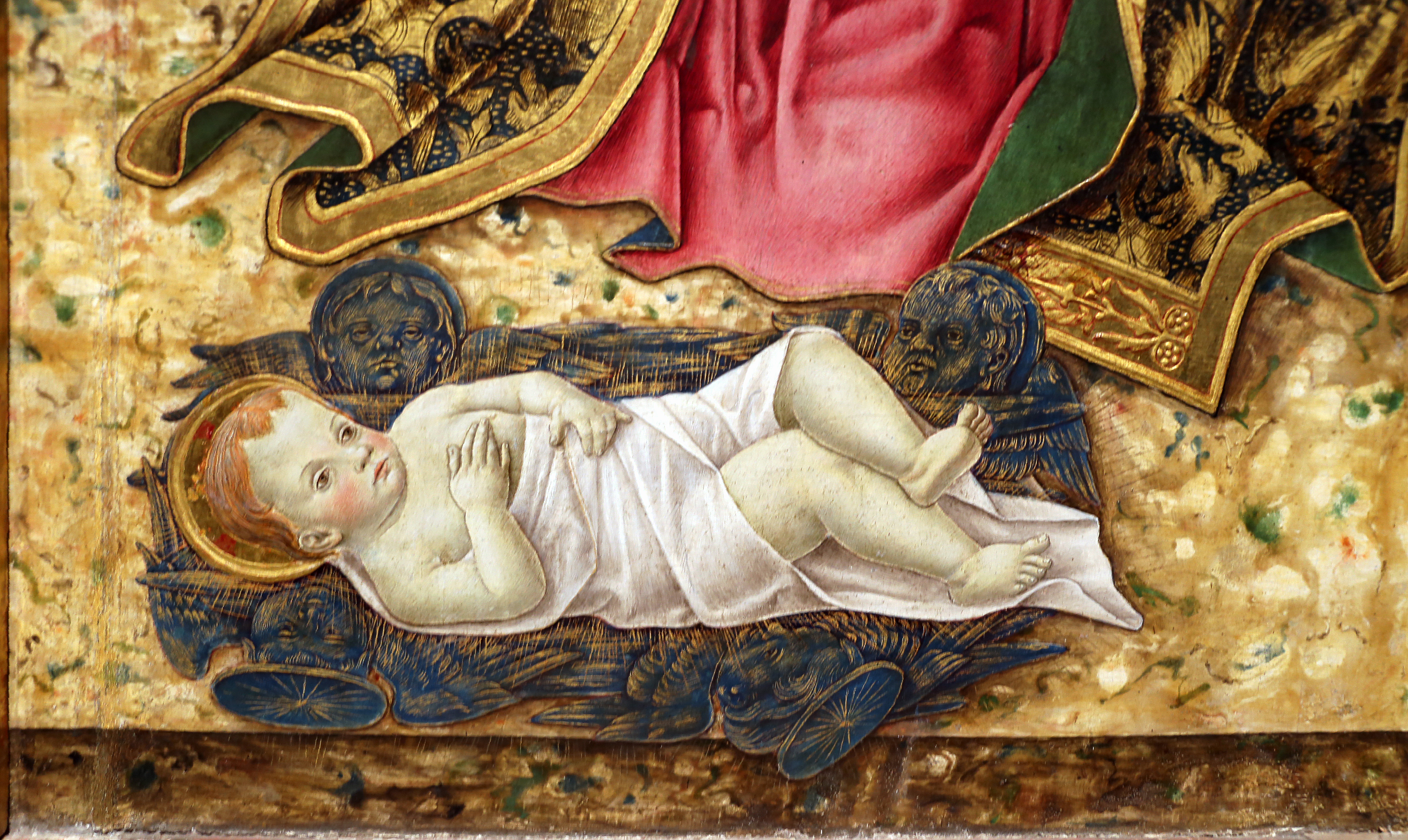 Falerone Madonna by Vittore Crivelli